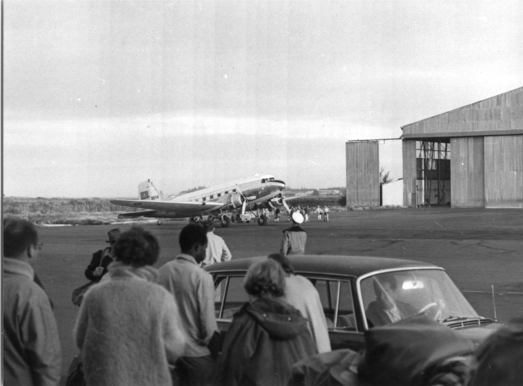 Mauritanian Air Force plane at a military airport near Dakar, Senegal (West Africa), 1967 This is a Douglas C-47 Dakota, a military version of the DC-3.